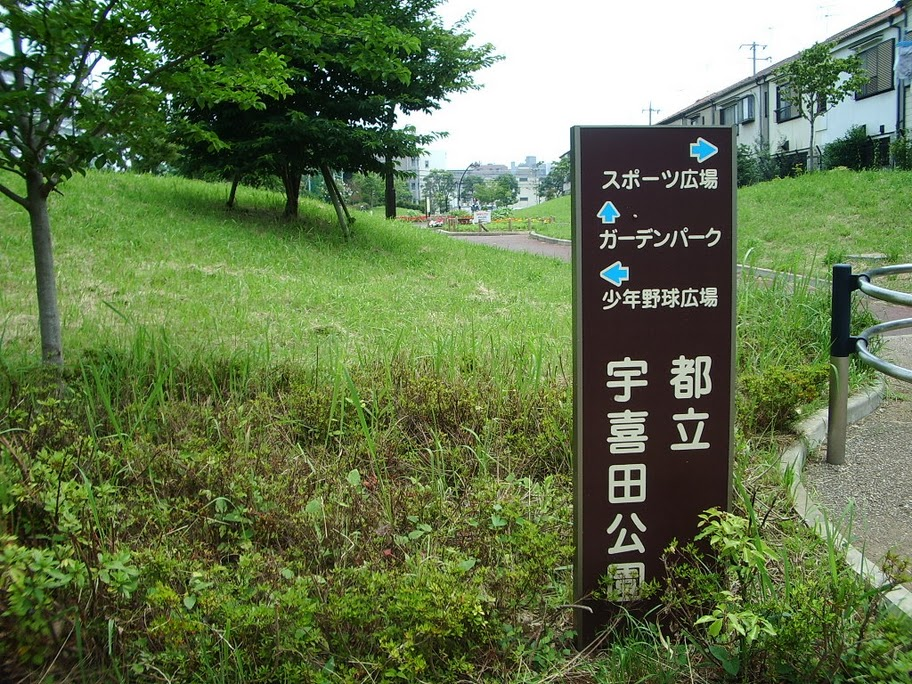 Ukita Park.